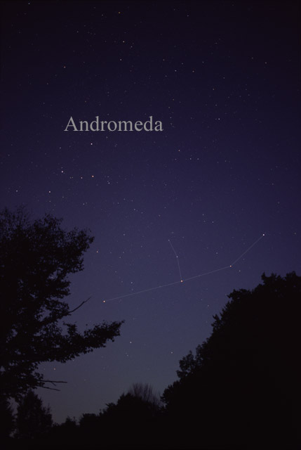 Photography of the constellation Andromeda